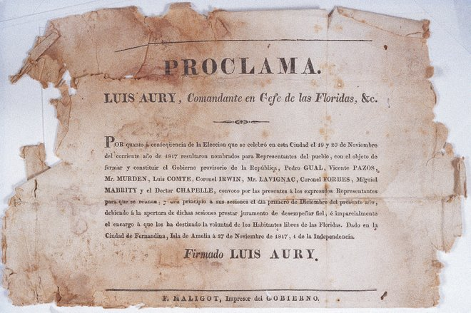 After the Island of Amelia was taken over by filibusters under the command of French pirate Louis Michel Aury in 1817, he proclaimed the "Republic of Florida" and announced elections. The image shows the document where he announced the results of these elections (in Spanish). It is signed Louis Aury.